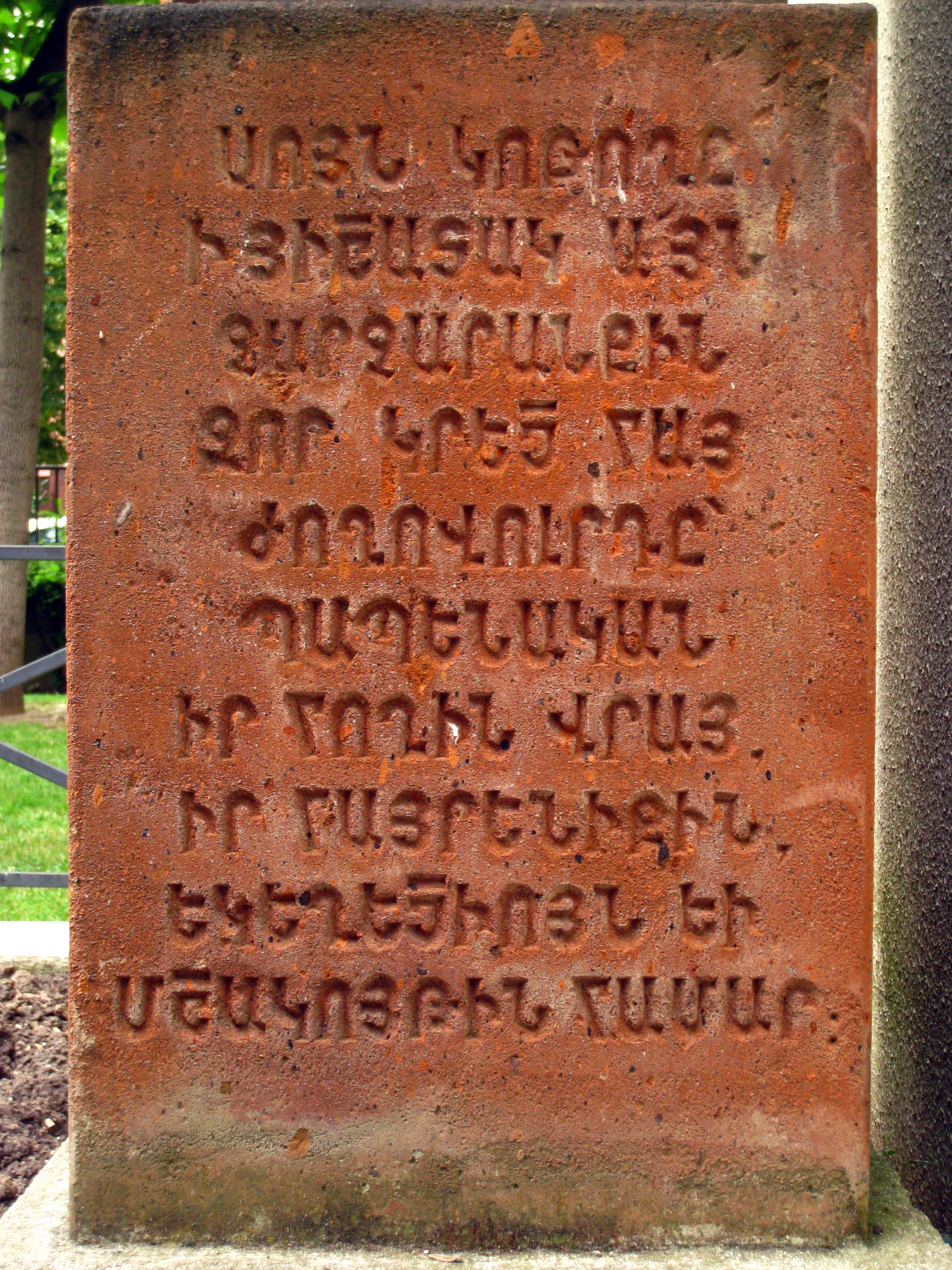 Khachkar commemorating the suffering caused on Armenians for practicing their religion and culture in their homeland, Charenton-le-Pont, Val-de-Marne, France.